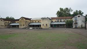 gbmm jr college hgt is best college in hgt